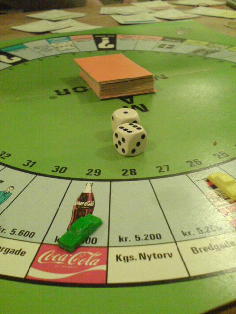 Danish edition of Monopoly: Matador